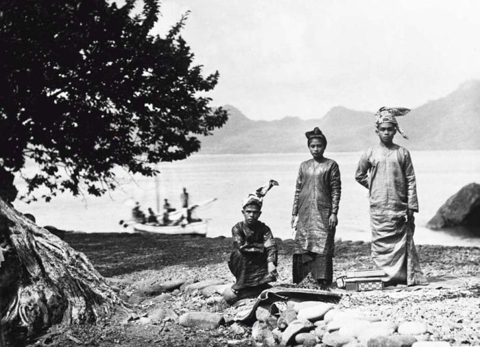 Portrait of inhabitants at the Sangihe Islands, traditionally dressed